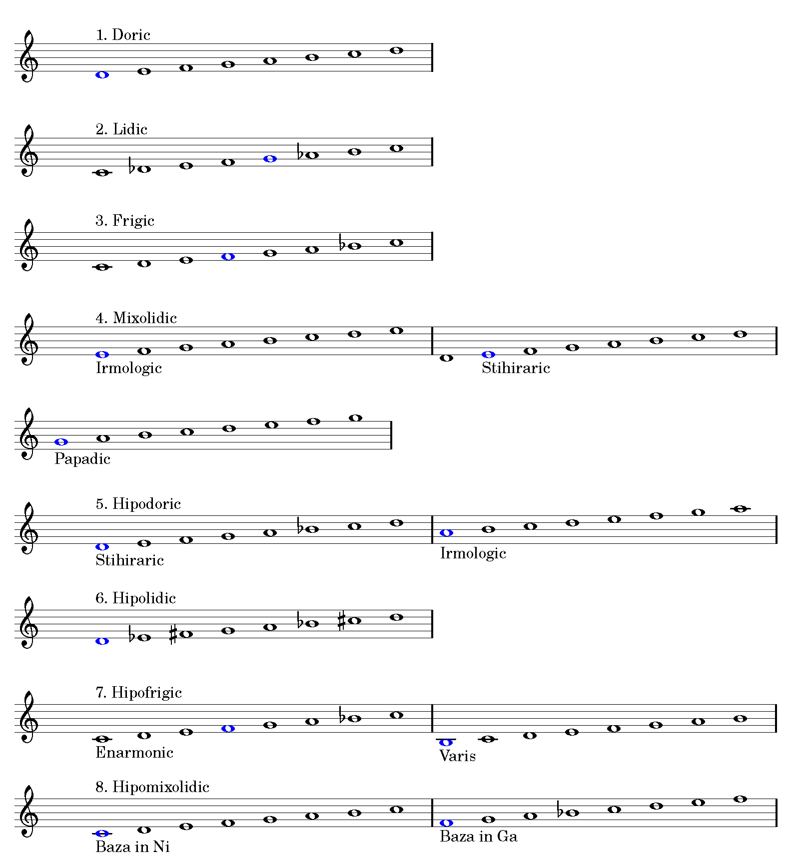 Byzantine Modes